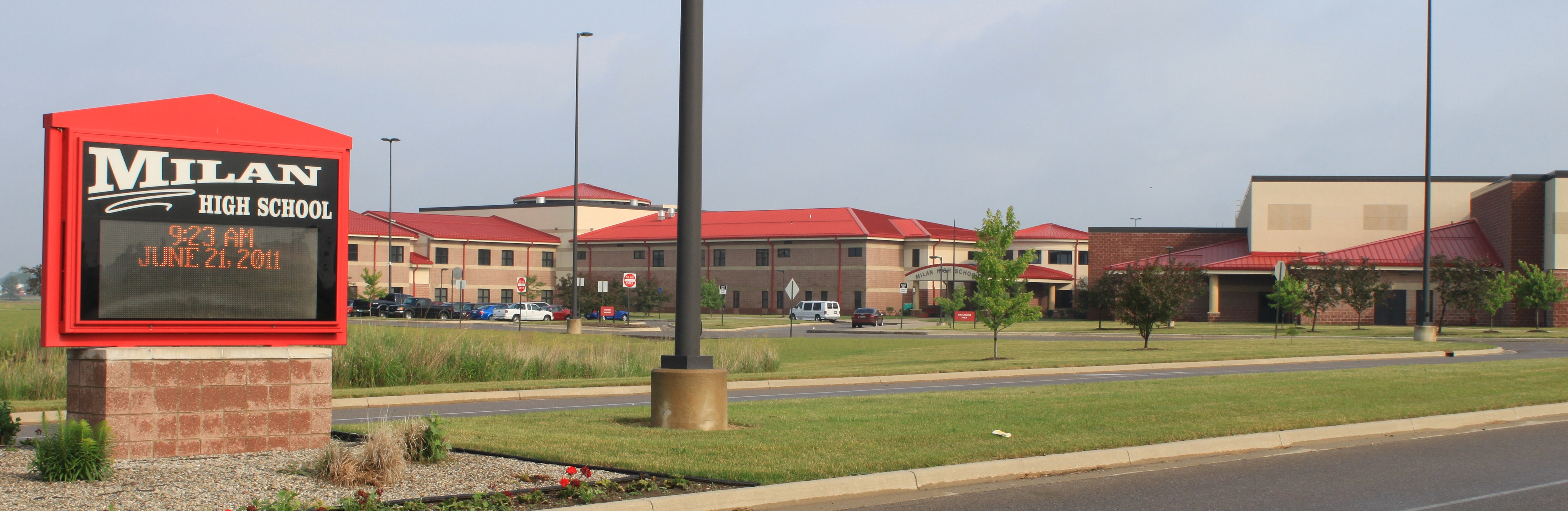 Milan High School, 200 Big Red Drive, Milan, Michigan